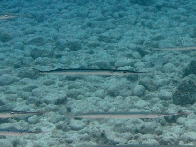 Belone belone photographed in Greece (Lefkada) by Roberto Pillon.